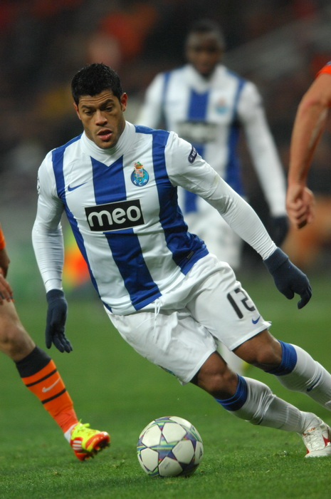 Hulk Players of Porto Players is Brazil